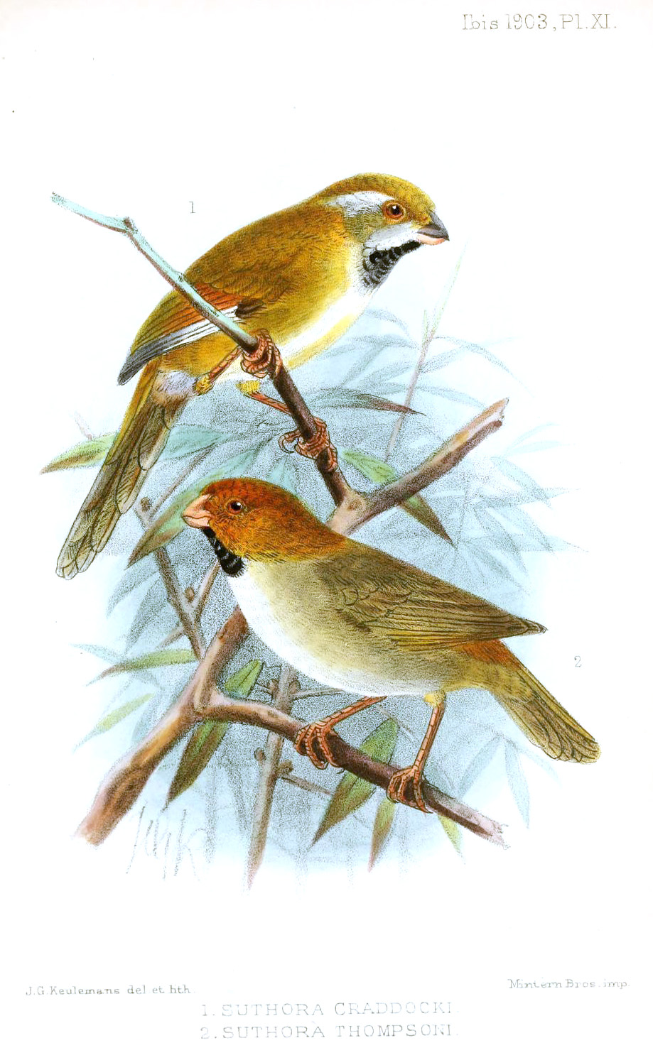 Suthora craddocki (=Paradoxornis verreauxi craddocki) & Suthora thompsoni (Paradoxornis davidianus thompsoni)